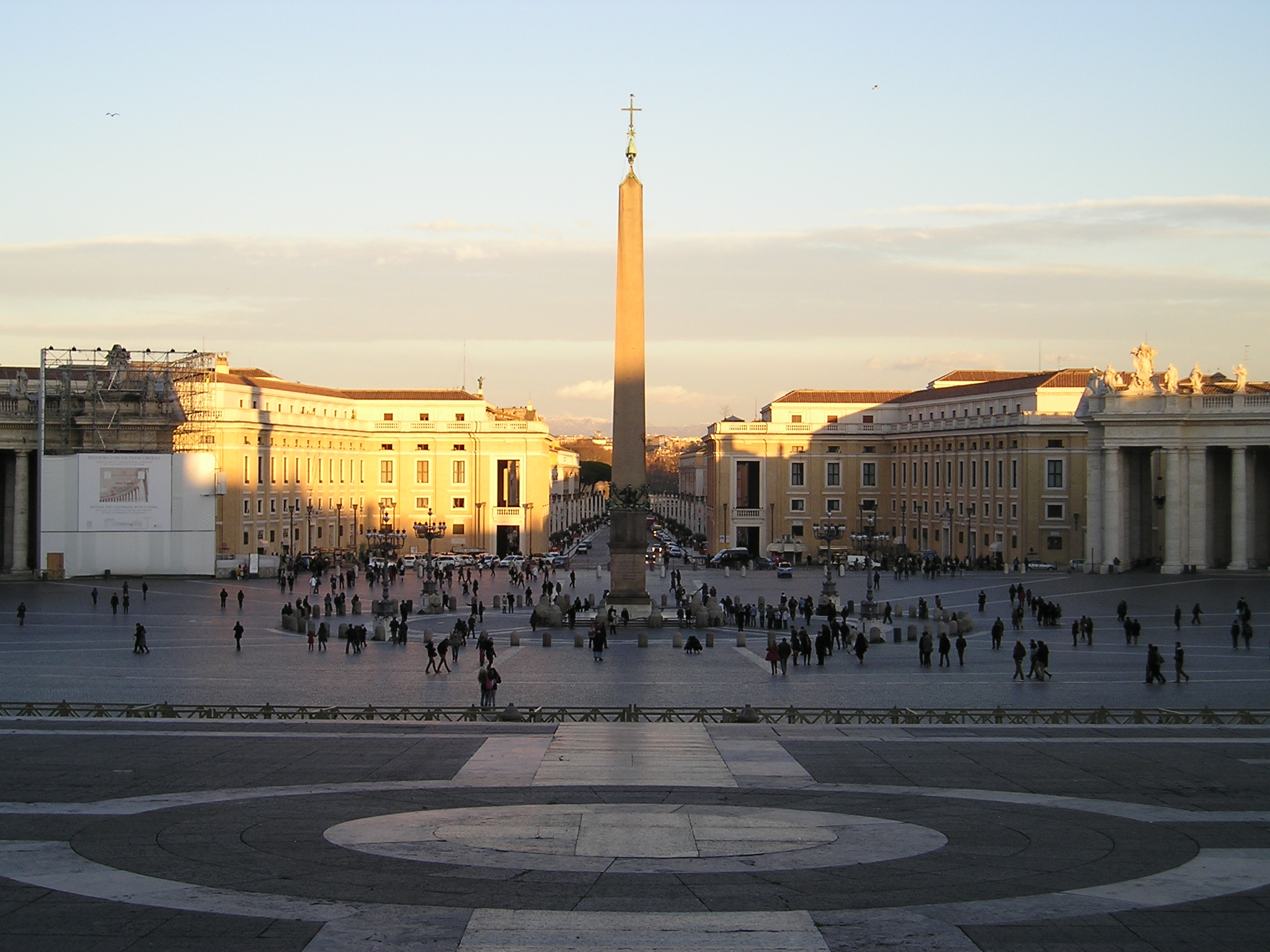 Saint Peter's Square